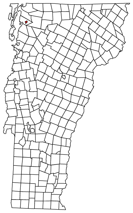 Description: Map of Vermont towns with Saint Albans City highlighted Source: Map created by Jared C. Benedict on 26 March 2004. Copyright: © Jared C. Benedict.